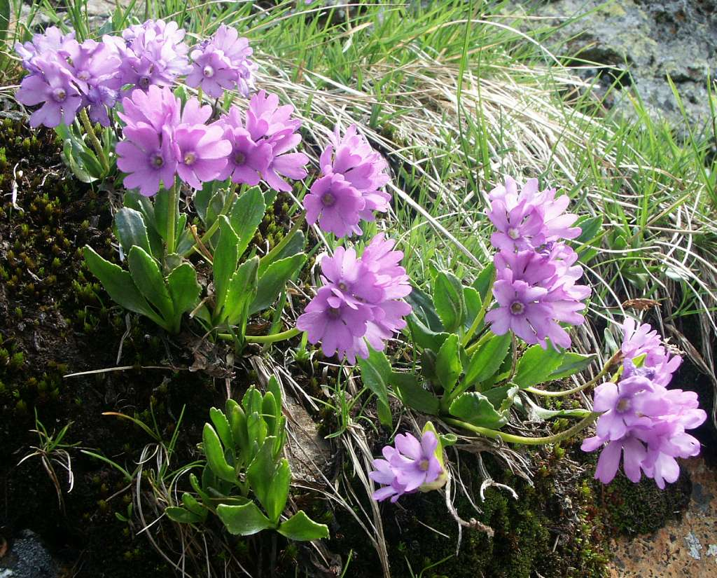 This photo shows the Primula glutinosa.